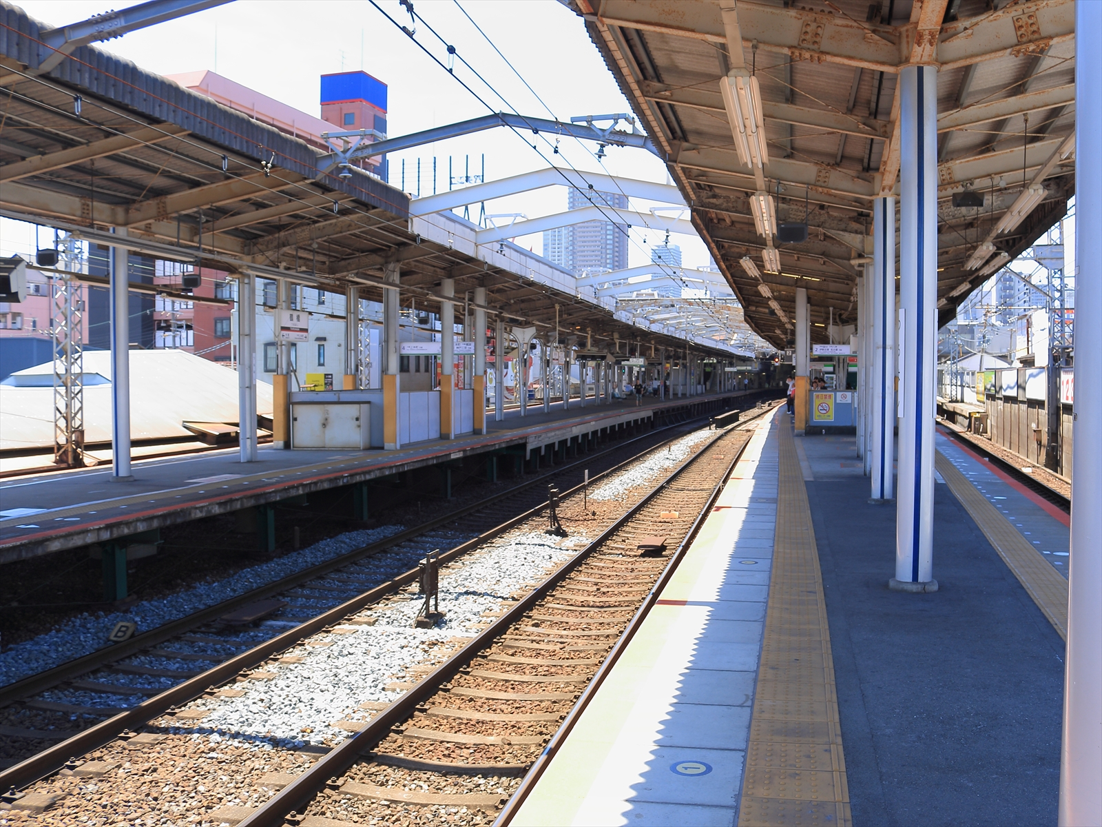 Platoform from Tsuruhashi Station (Kintetsu).